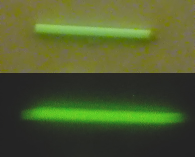 1.2 Curie 4" x .2" Tritium vial "Traser" Vial shown here is 1.5 years old.